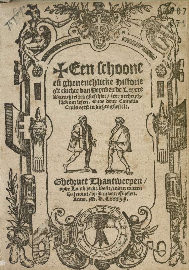 Title page of The Farce of Heynken the Luyere, by the Antwerp rhetorician Cornelis Crul (ca. 1500-ca. 1550), published in Antwerp by Jan van Ghelen in 1582.